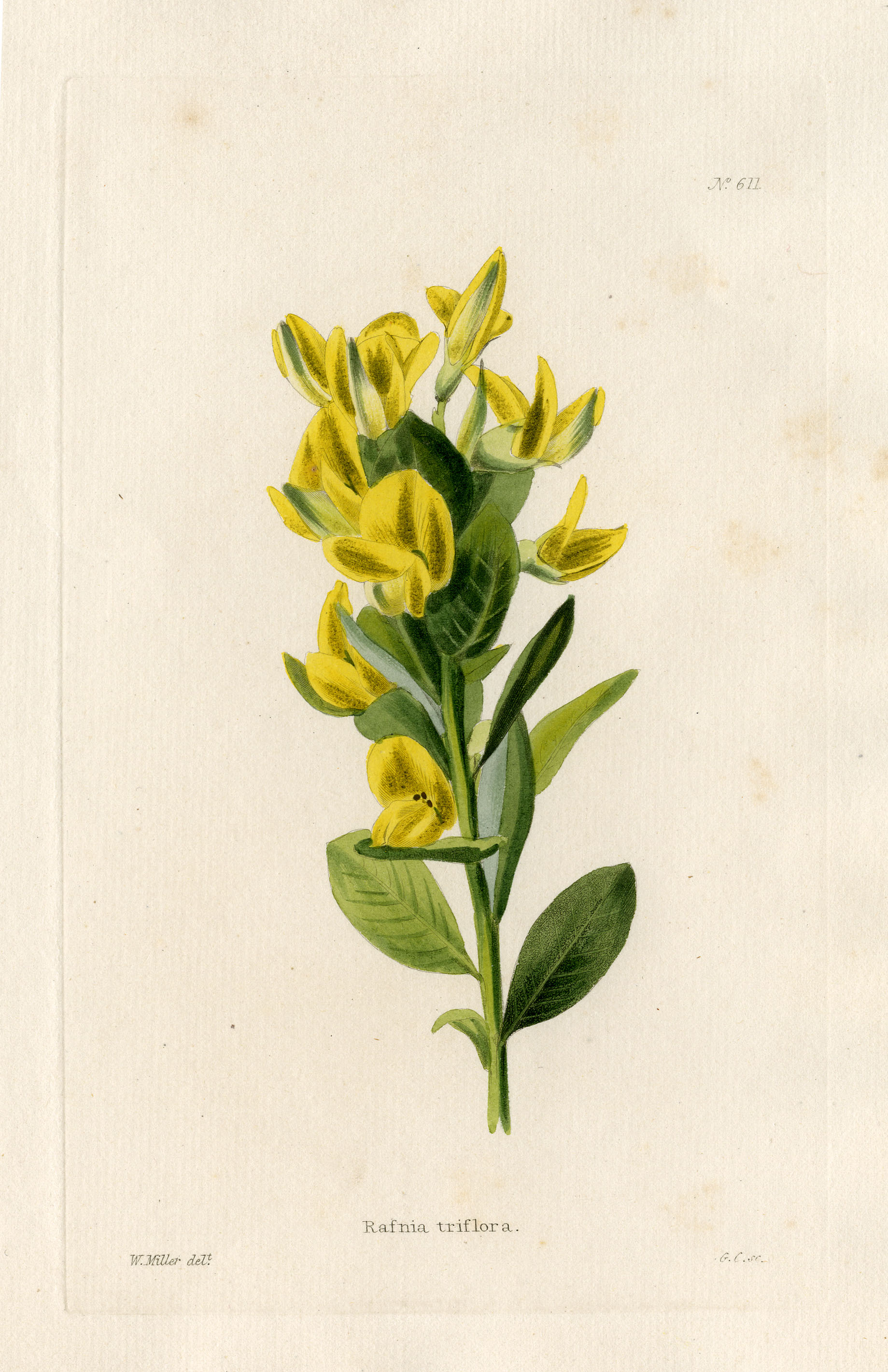 Rafnia triflora drawn by William Miller from "The Botanical Cabinet" (London 1817-1833) plate 611